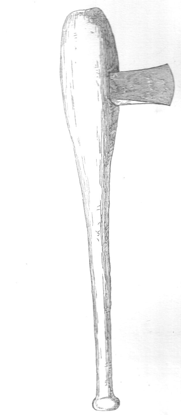 stone axe. own scan from very old book